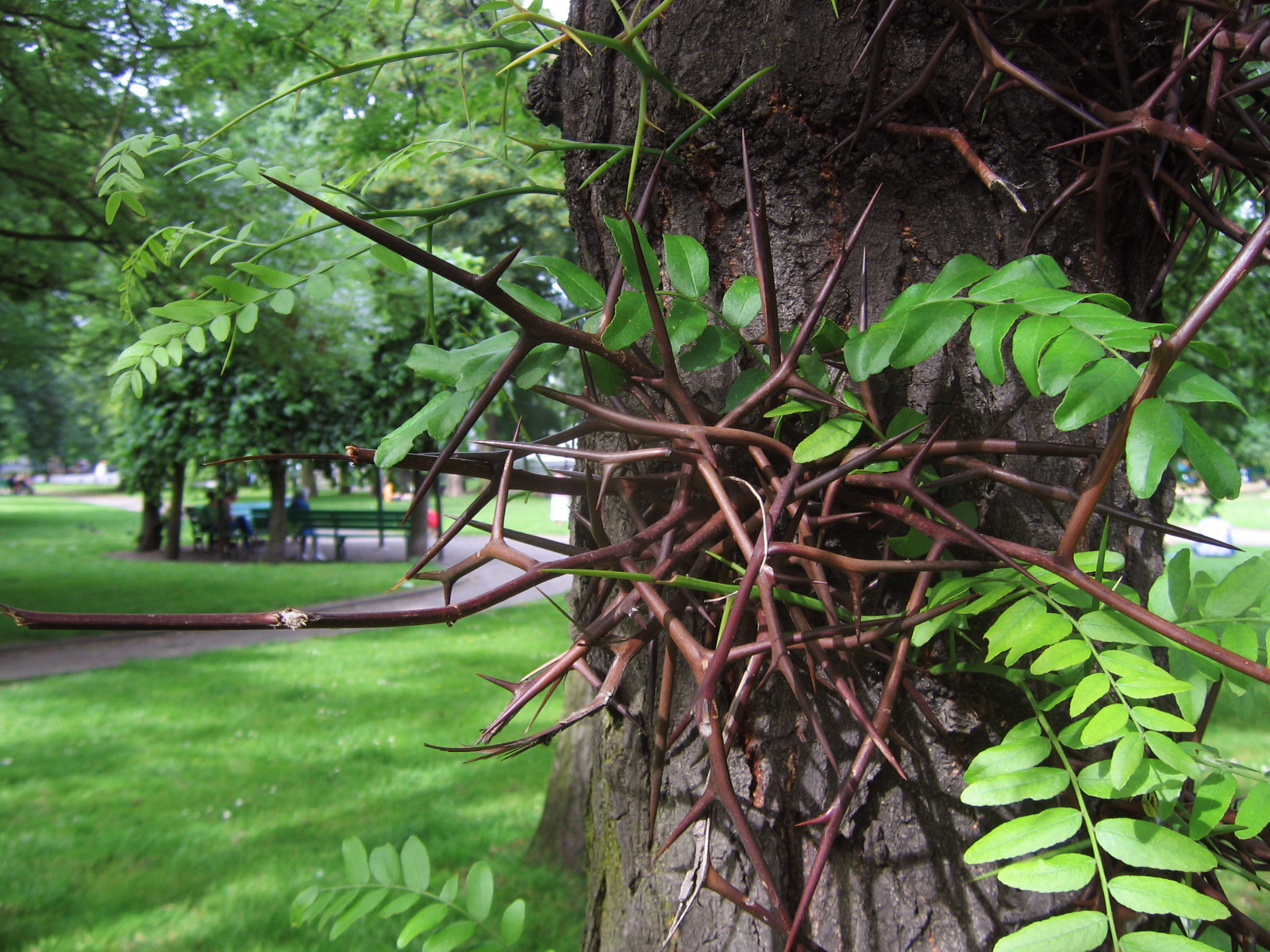 Honey locust at the Jardin Botanique